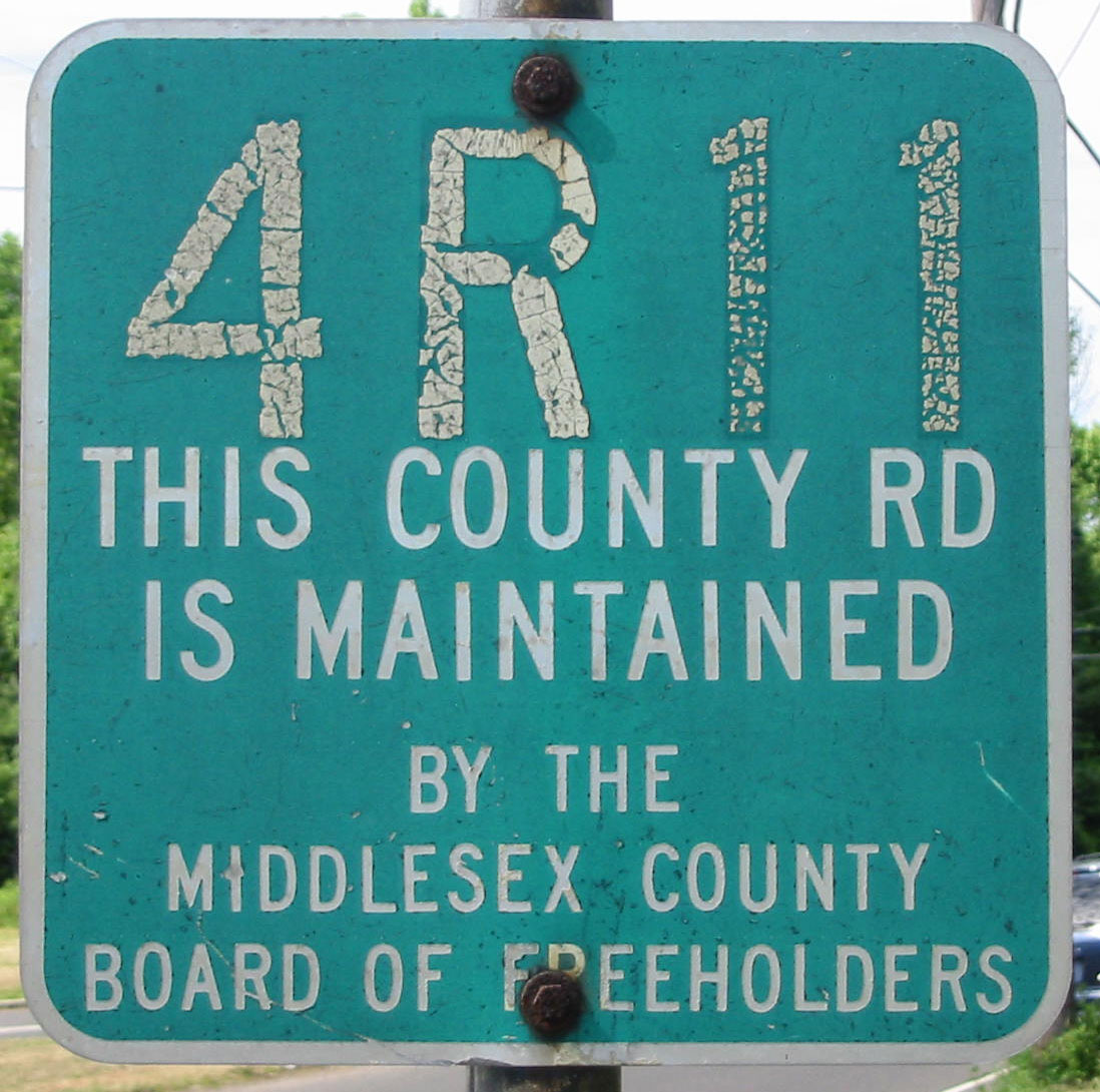 Old-style Middlesex County shield; this road is now locally maintained. Taken May 30, 2004 by User:SPUI.